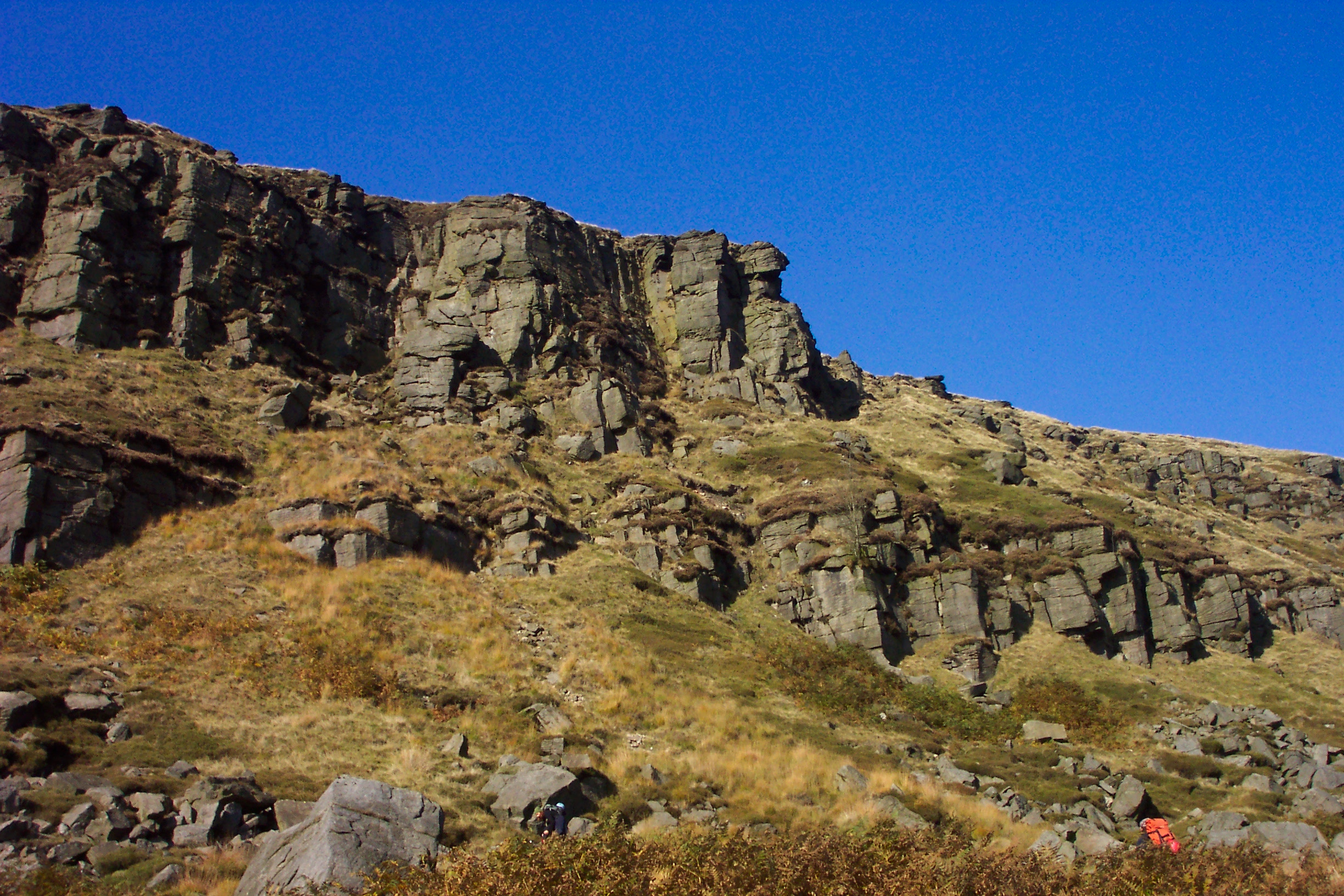 dave 59 took it myself